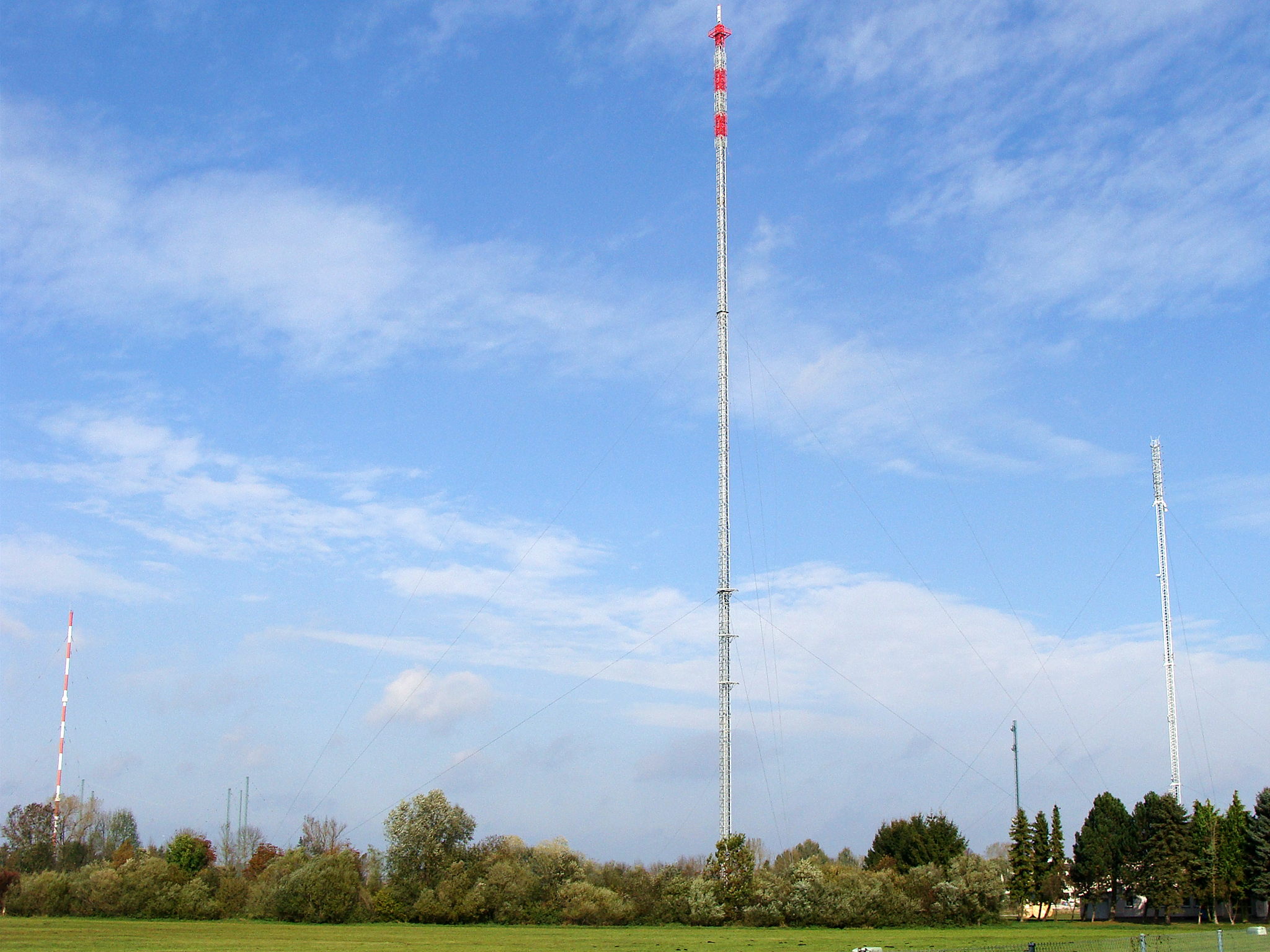 Radio Transmitter "Ismaning"